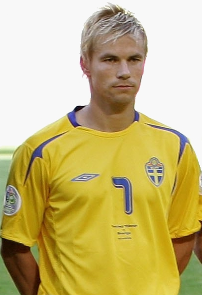 Niclas Alexandersson (Swedish national football team) before the FIFA World Cup match against Trinidad and Tobago on June 10, 2006